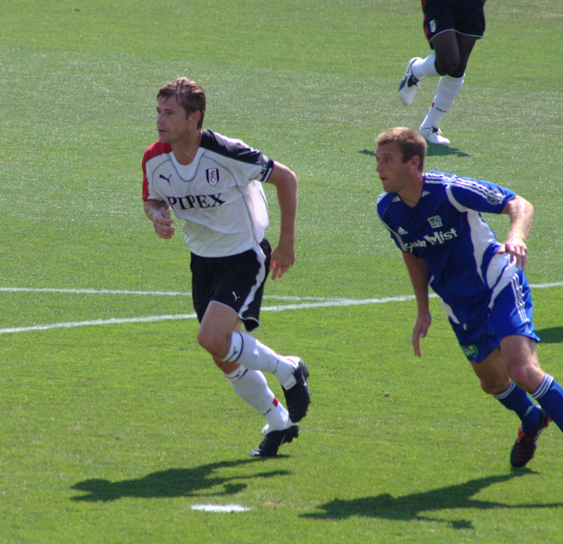 American Brian McBride playing for Fulham FC of the Premier League, 2005, by Rick Dikeman